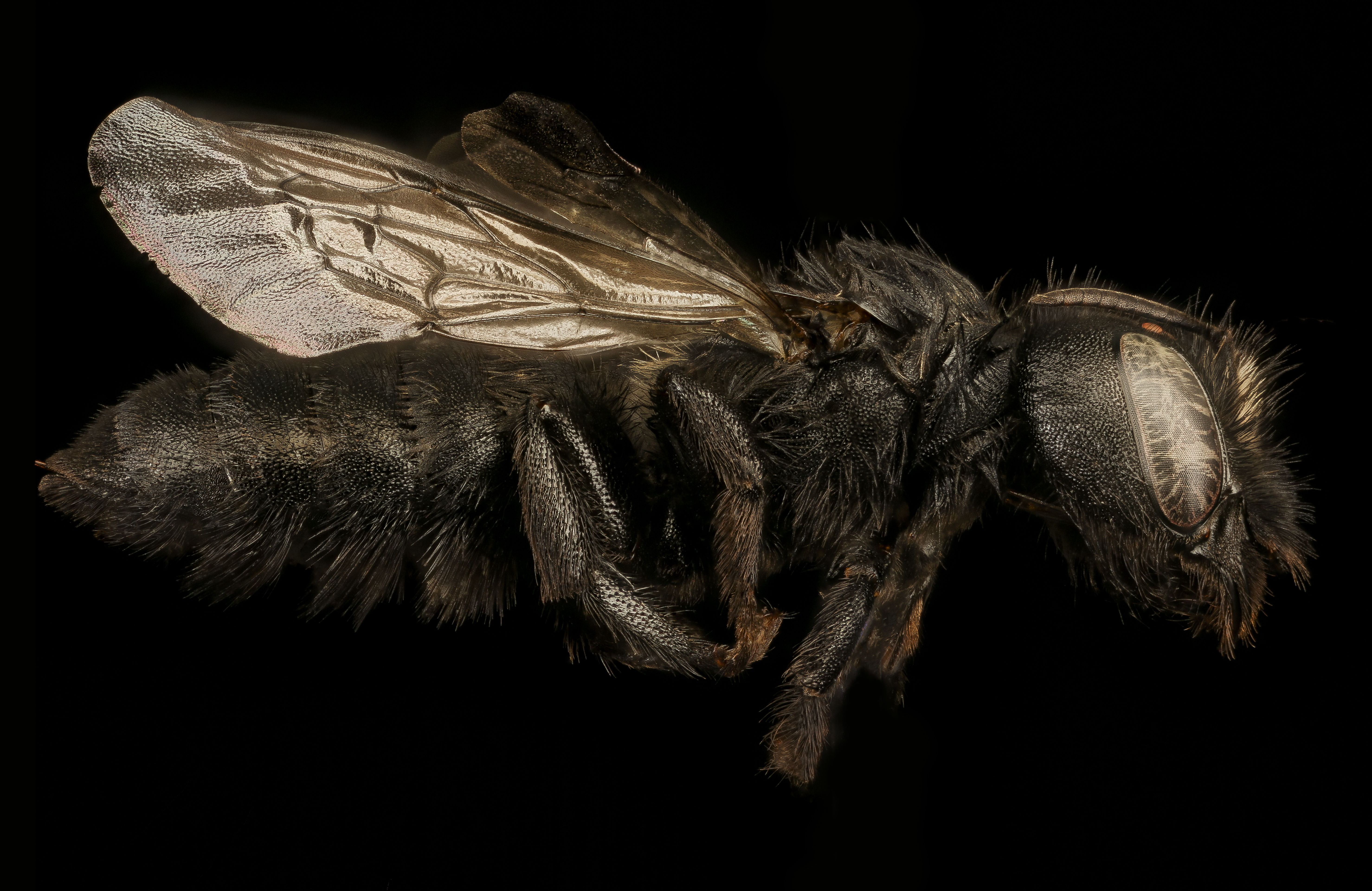 Hoplitis albifrons, f, right, Mariposa CA, 2017-07-13-15.55